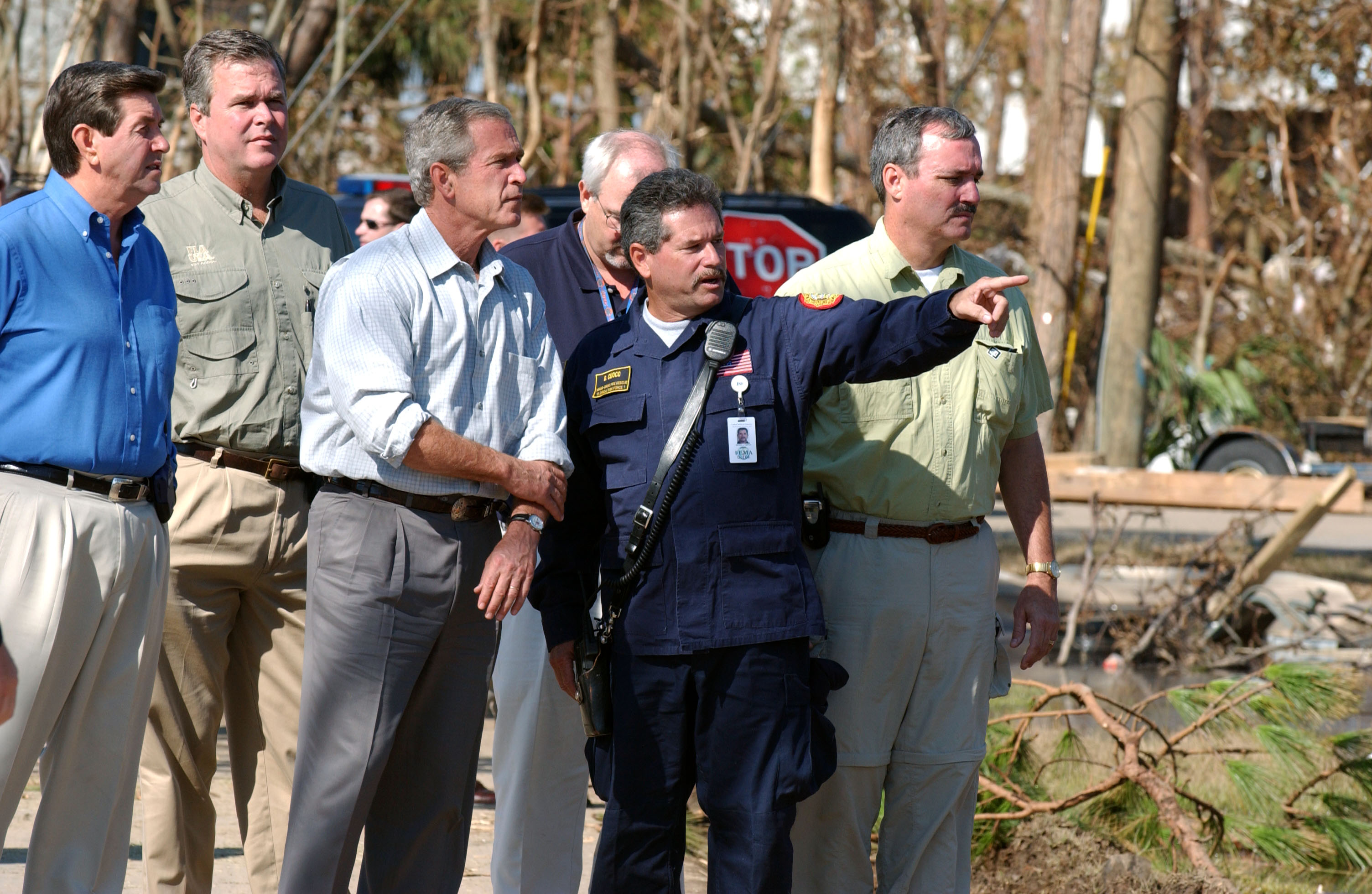 Pensecola, FL, September 19, 2004-- President George Bush gets a briefing on damage caused by Hurricane Ivan. FEMA Photo/Jocelyn Augustino